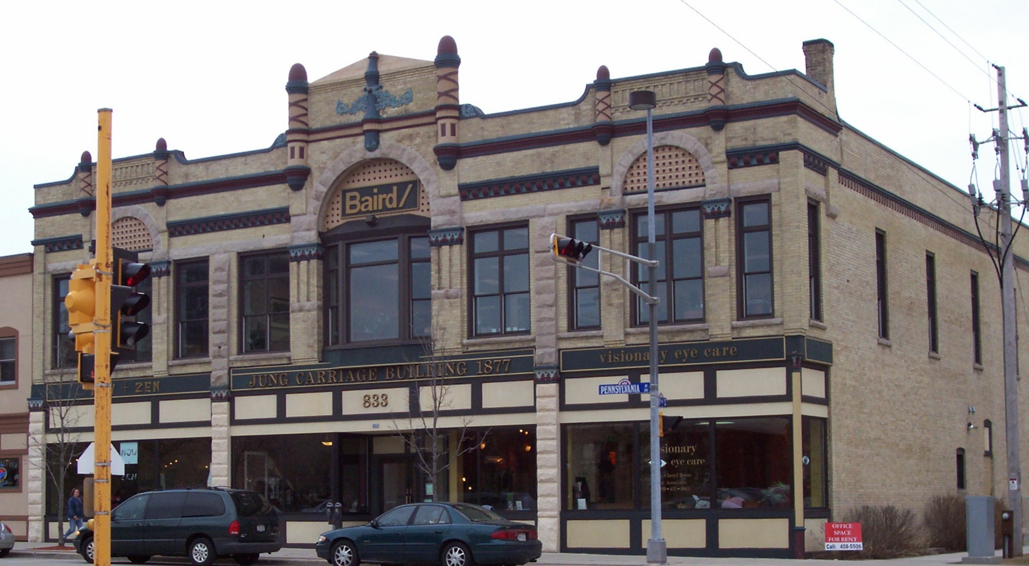 The former Jung Carriage Building in downtown Sheboygan, Wisconsin, USA. It is listed on the National Register of Historic Places. The building now houses several businesses.